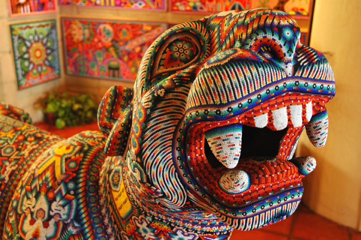 Fierce beaded jaguar in Puerto Vallarta, Mexico with similar Huichol art in the background